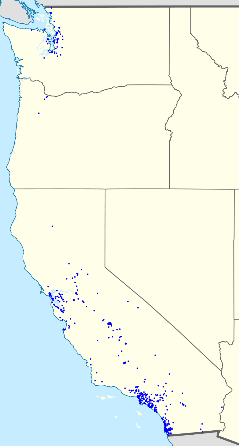 Footprint of UnionBanCal Corporation. Zip codes with more than one branch have progressively larger points.